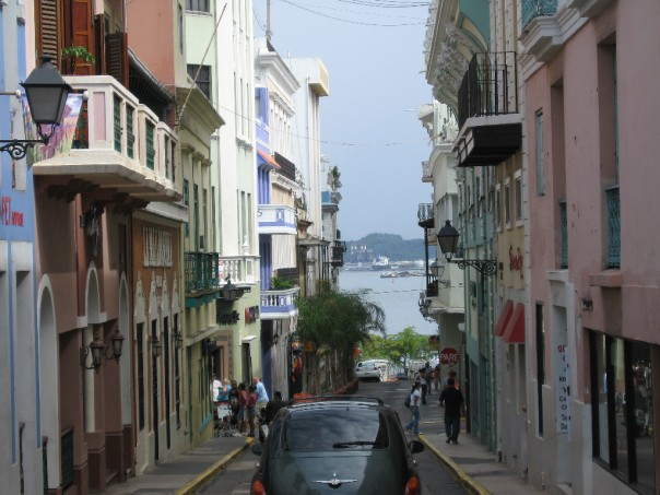 Looking down one of Old San Juan's streets towards the bay.